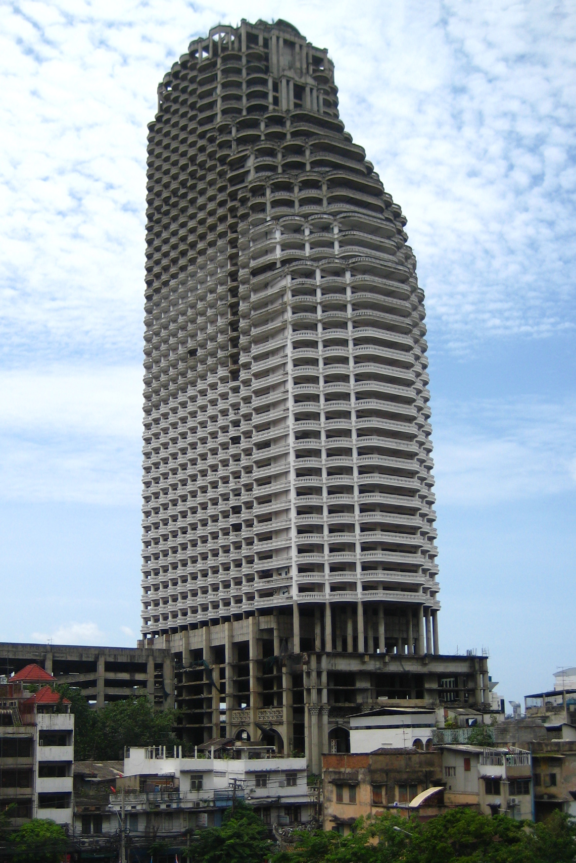 Sathorn Unique Tower, an abandoned skyscraper in Bangkok